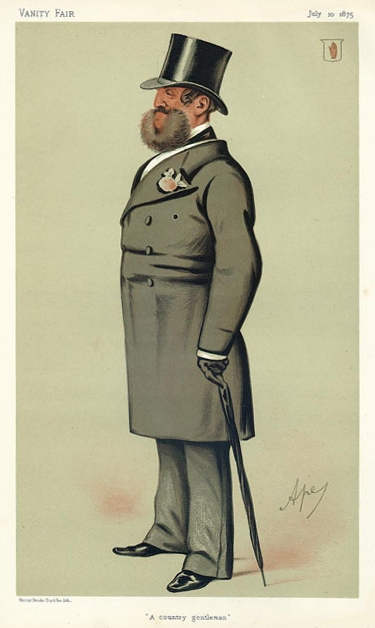 Caricature of Sir Henry Josias Stracey Bt MP (1805-1885). Caption read "A country gentleman".